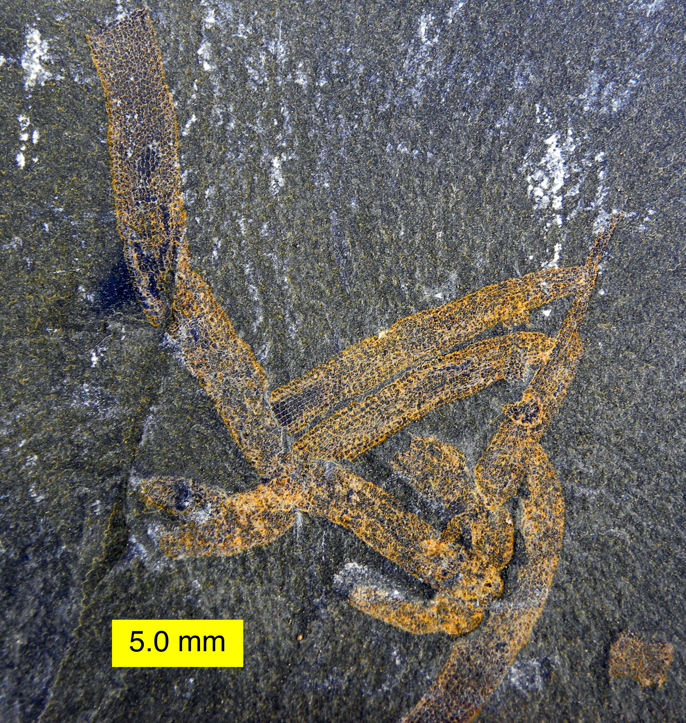 Vauxia (sponge) from the Walcott Quarry of the Burgess Shale (Middle Cambrian), British Columbia, Canada. Fossilworks PaleoDB link: Vauxia Walcott 1920